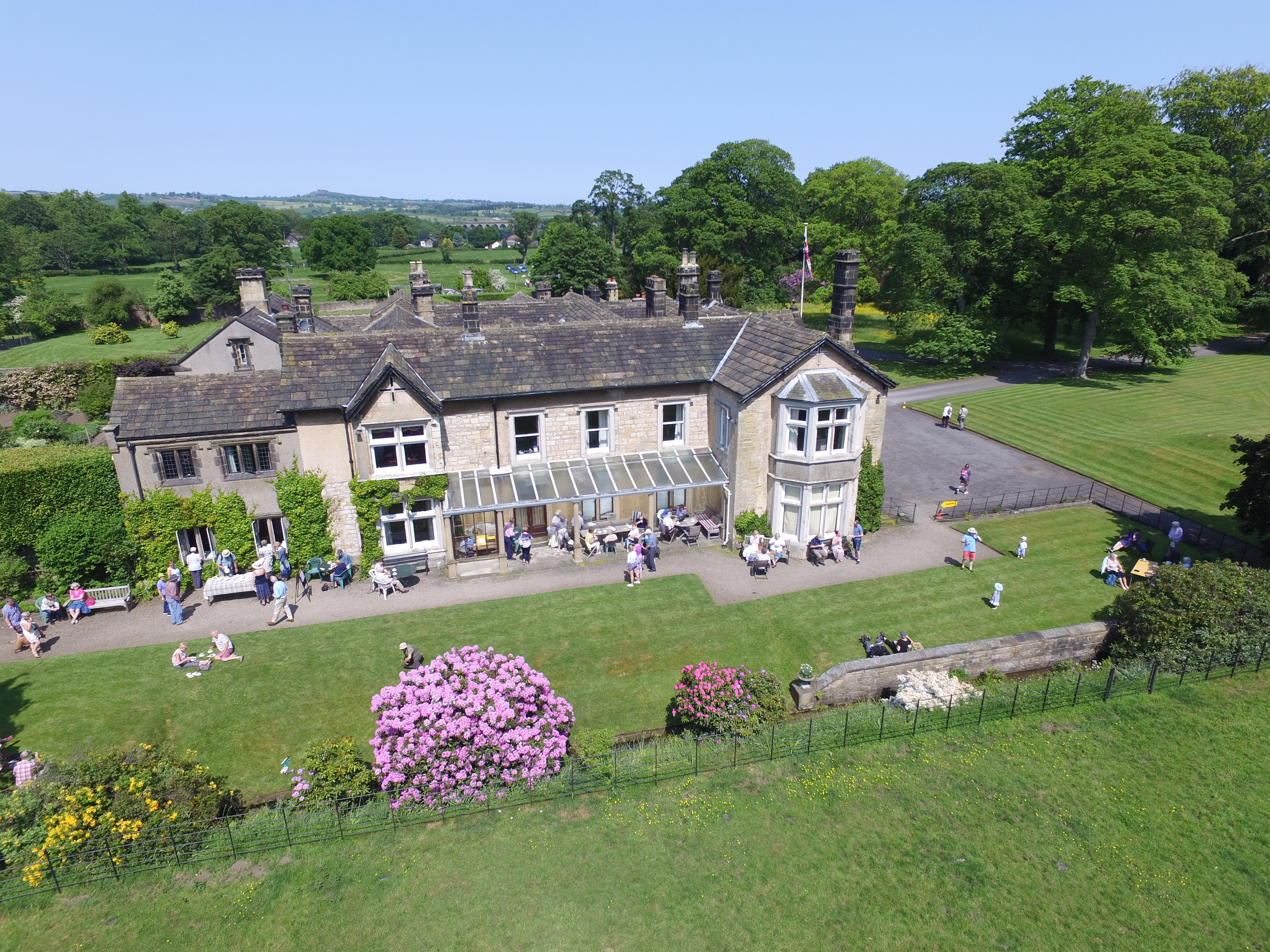 Creskeld Hall as seen from the south showing the terrace and hall with glass verandah